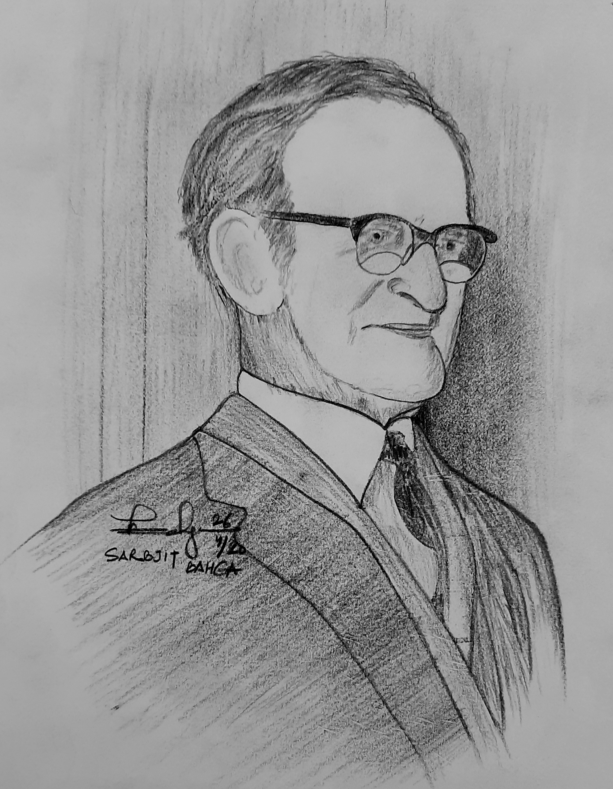 Maxwell Fry - A pencil sketch by Sarbjit Bahga